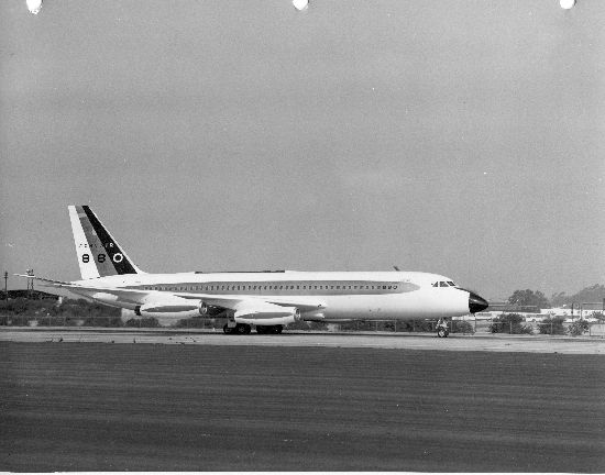 One of the first Convair 880 aircraft in its original paint scheme. It had a gold, black and white scheme if viewed in color.